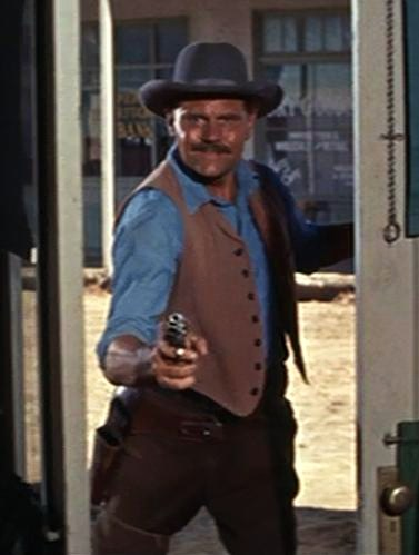 John Alderson in No Name on the Bullet - trailer (cropped screenshot)